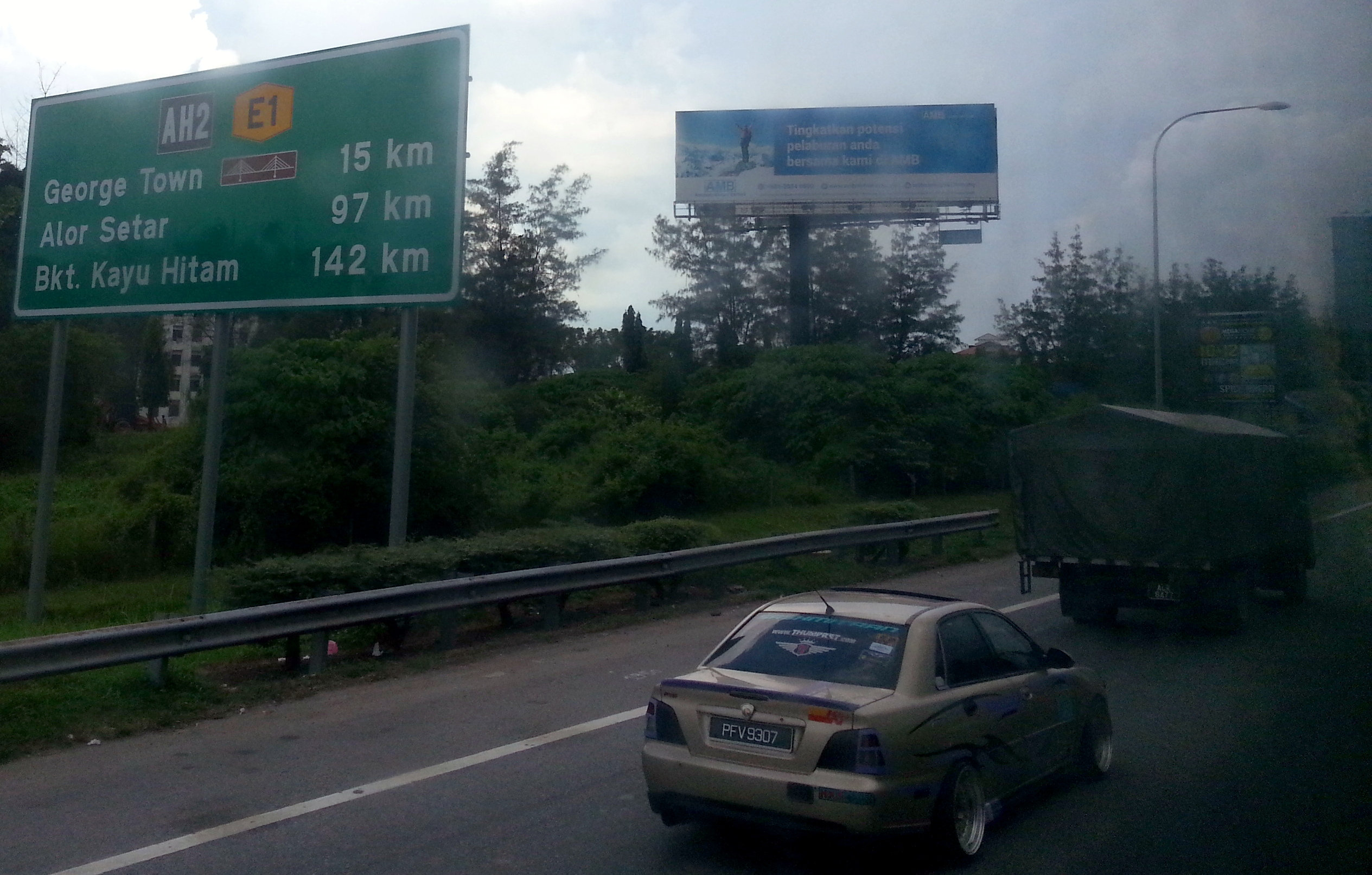 North-South Expressway signage near Butterworth, Penang. Note the Asian Highway 2 (AH2) sign.